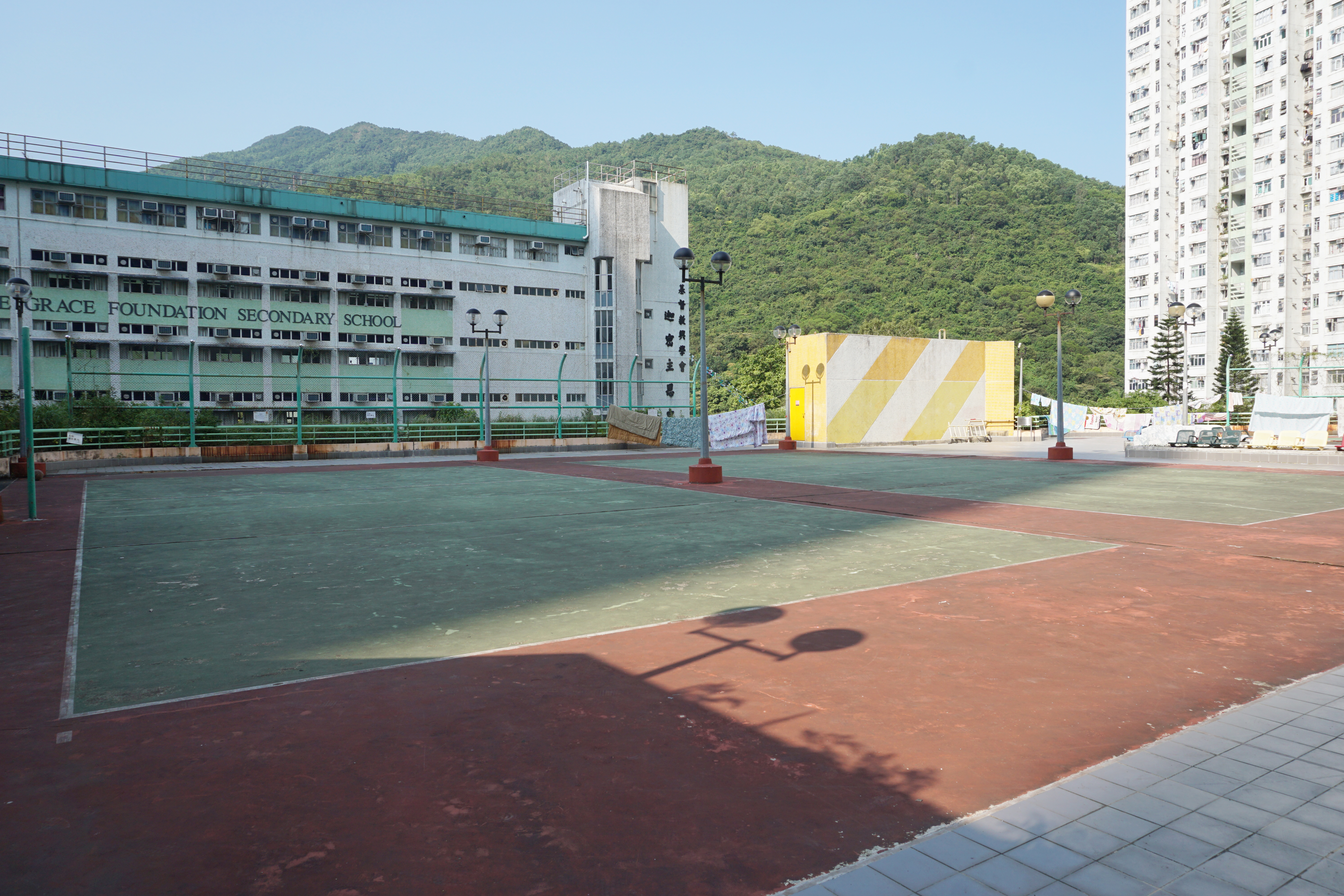 Po Lam Estate in Po Lam, Hong Kong.